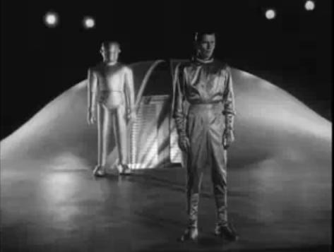 The Day the Earth Stood Still is a 1951 science fiction film about an alien and a robot on a diplomatic mission to Earth.This image is a screenshot from a public domain trailer for the film. Trailers for movies released before 1964 are in the Public Domain because they were never separately copyrighted.